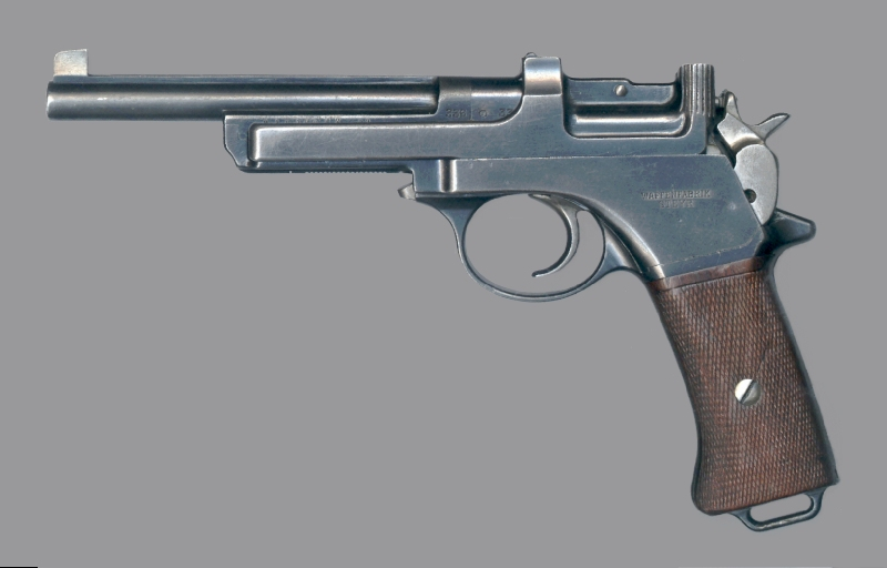 Mannlicher M1901. Caliber 7.65 mm.